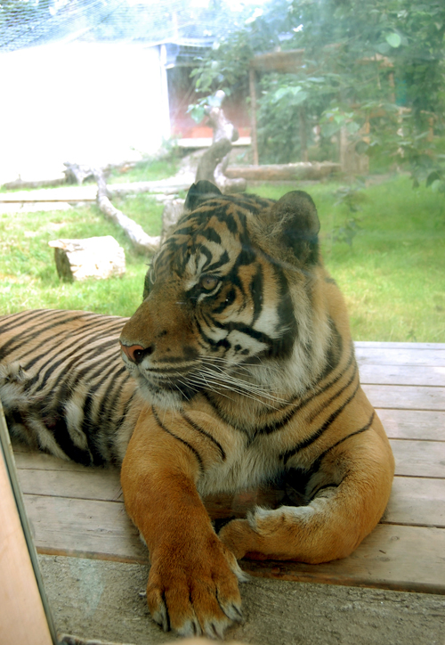 Sumatran tiger, Parken zoo, Eskilstuna.